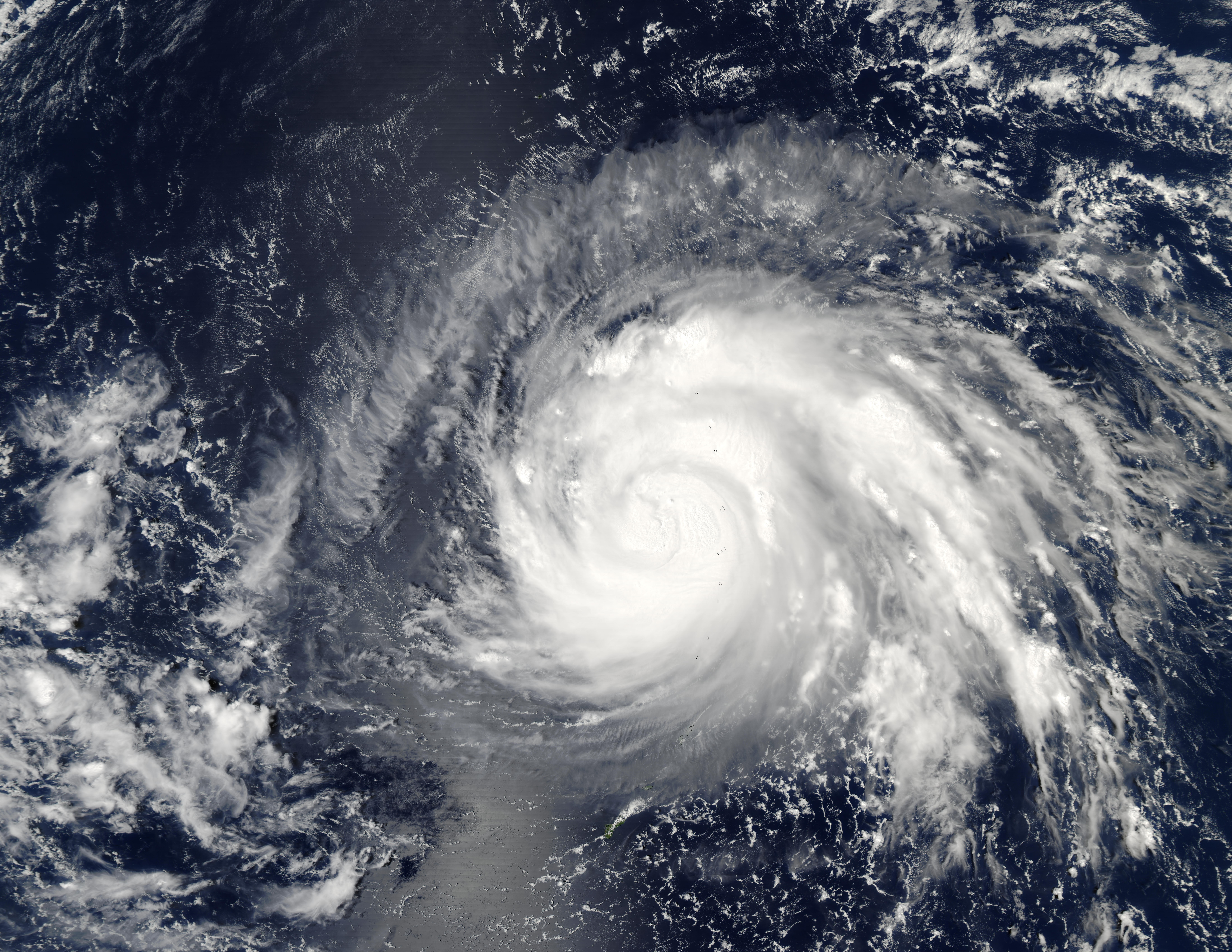 In this true-color image from the Moderate Resolution Imaging Spectroradiometer on the Aqua satellite, Typhoon Higos sweeps across the Mariana Islands with maximum sustained winds of 86 mph (75 knots). The image was acquired September 28, 2002.